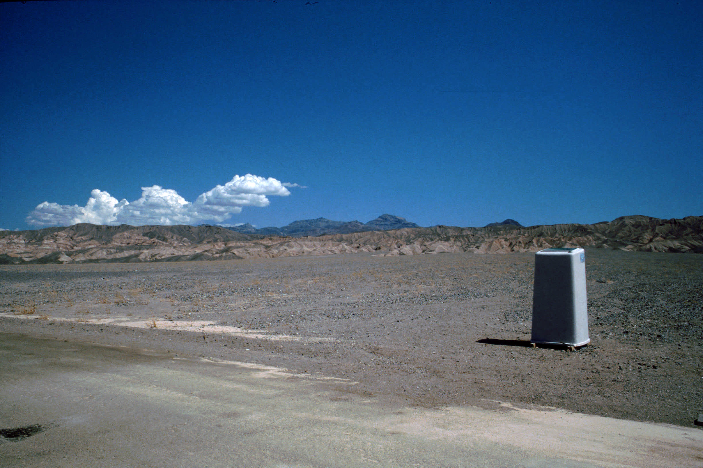 Desert water closed!